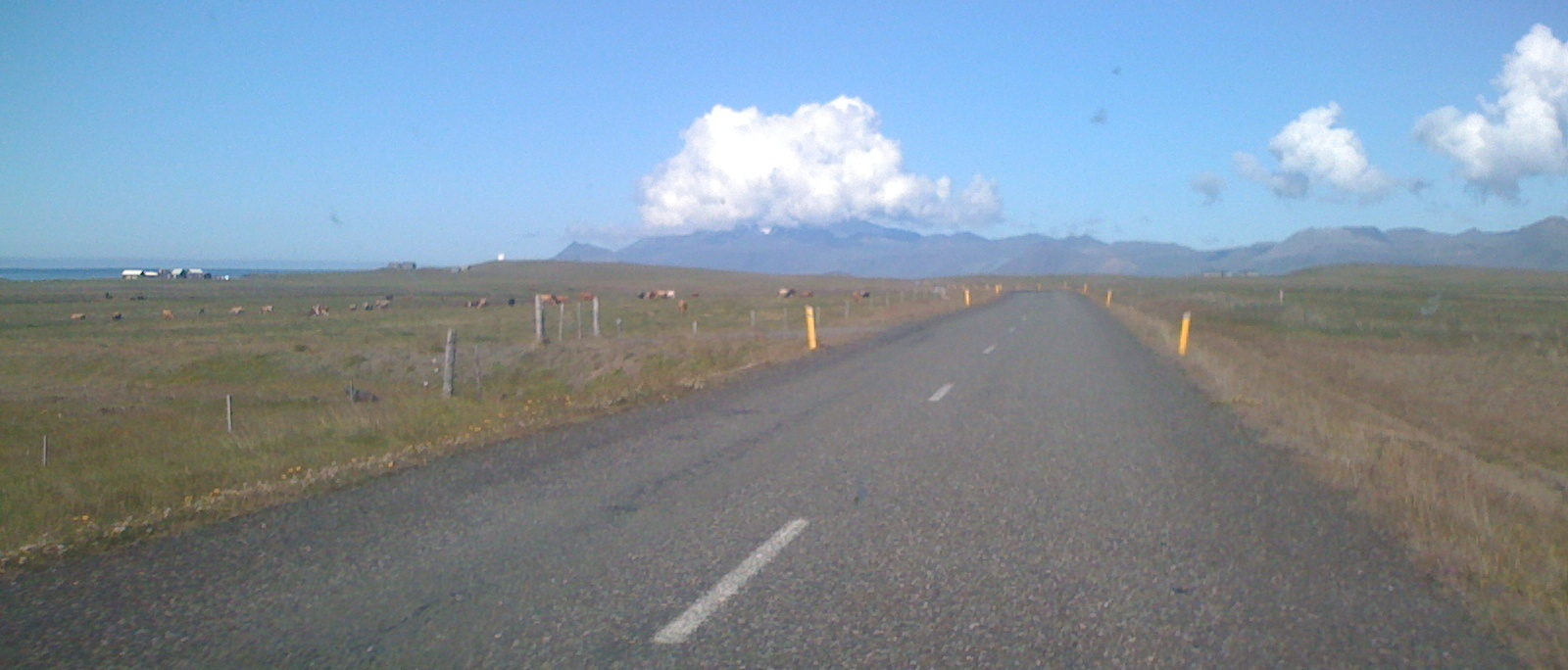 A very localized storm above Snæfellsjökull, showing clouds formed on the mountain by Orographic Lift.